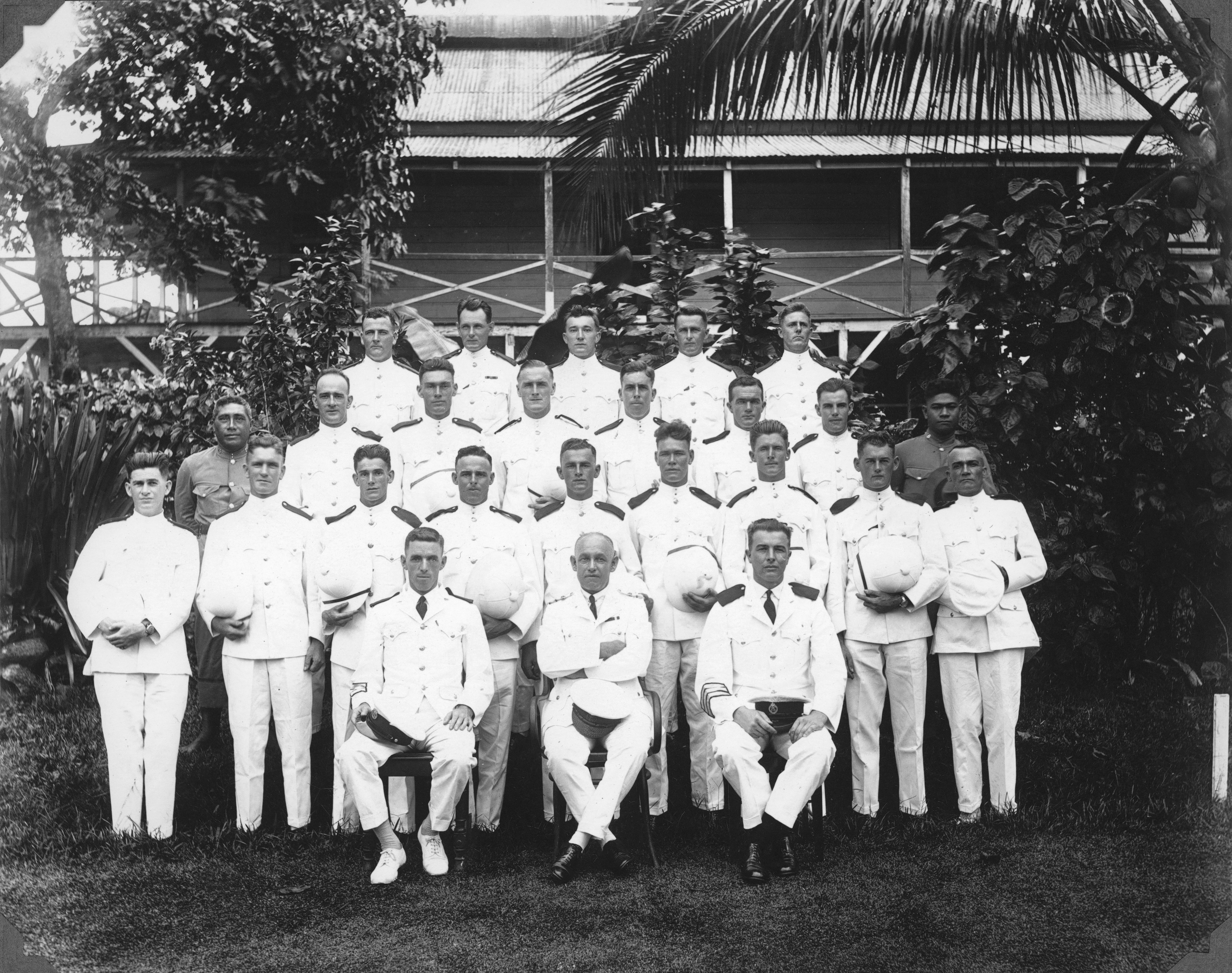 New Zealand police in Samoa during the Mau movement, circa 1930. Gagana Samoa: Leoleo mai Niu Sila i Samoa i le taimi o le Mau. (O le ata fa'apea na pu'e i le tausaga 1930.)